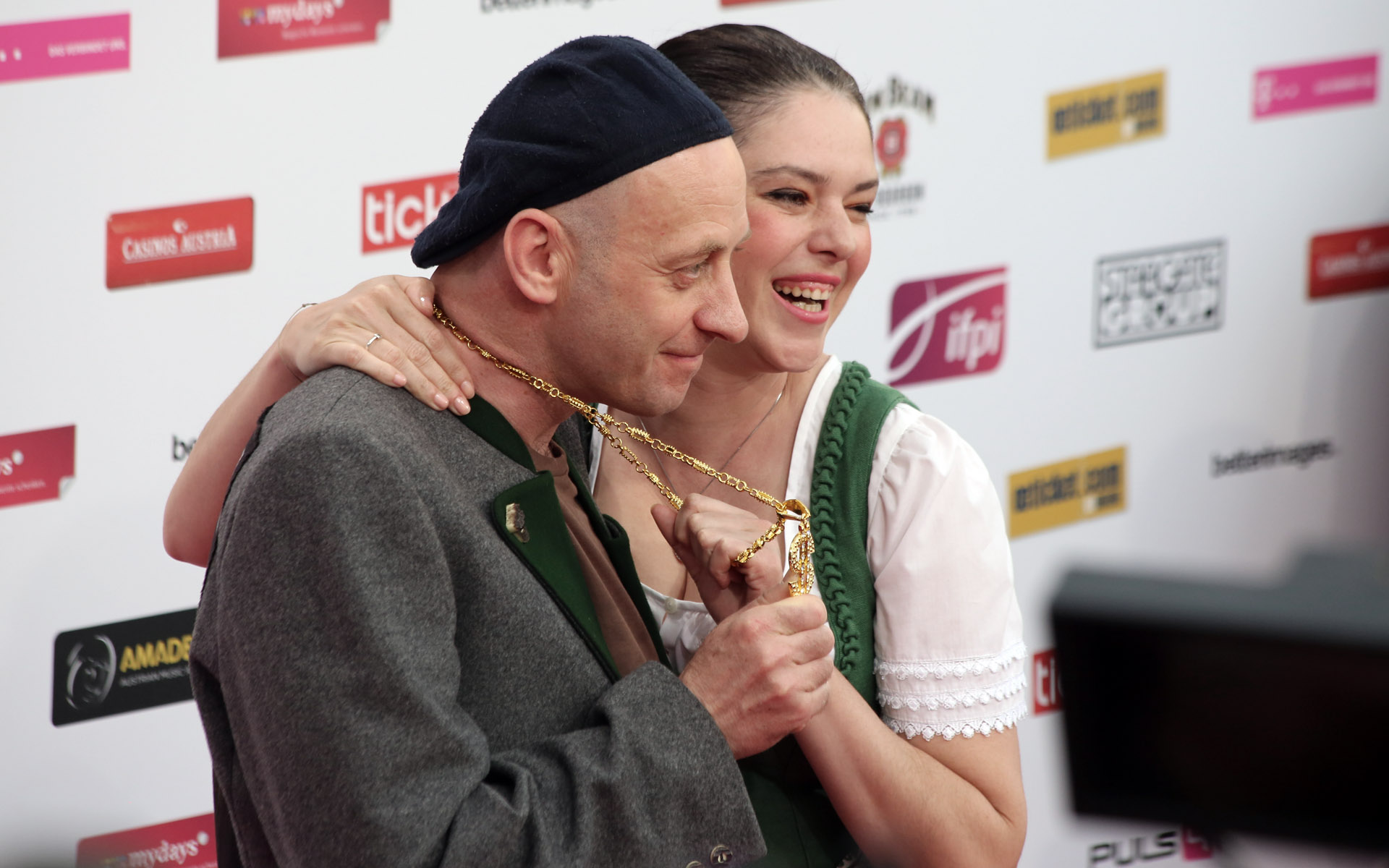 Carmen Kreuzer and Alf Poier at the Amadeus Austrian Music Award at Volkstheater in Vienna